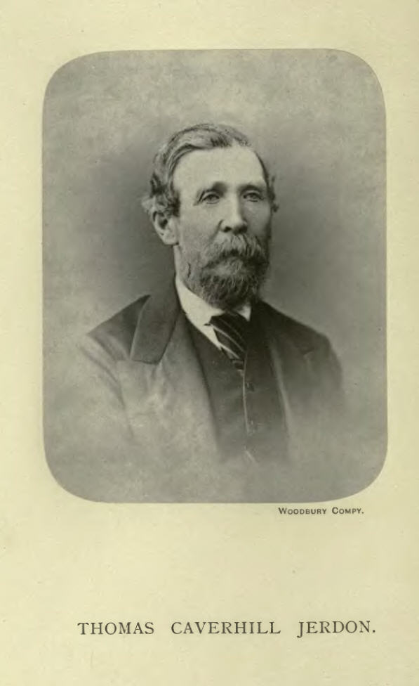 Thomas Caverhill Jerdon